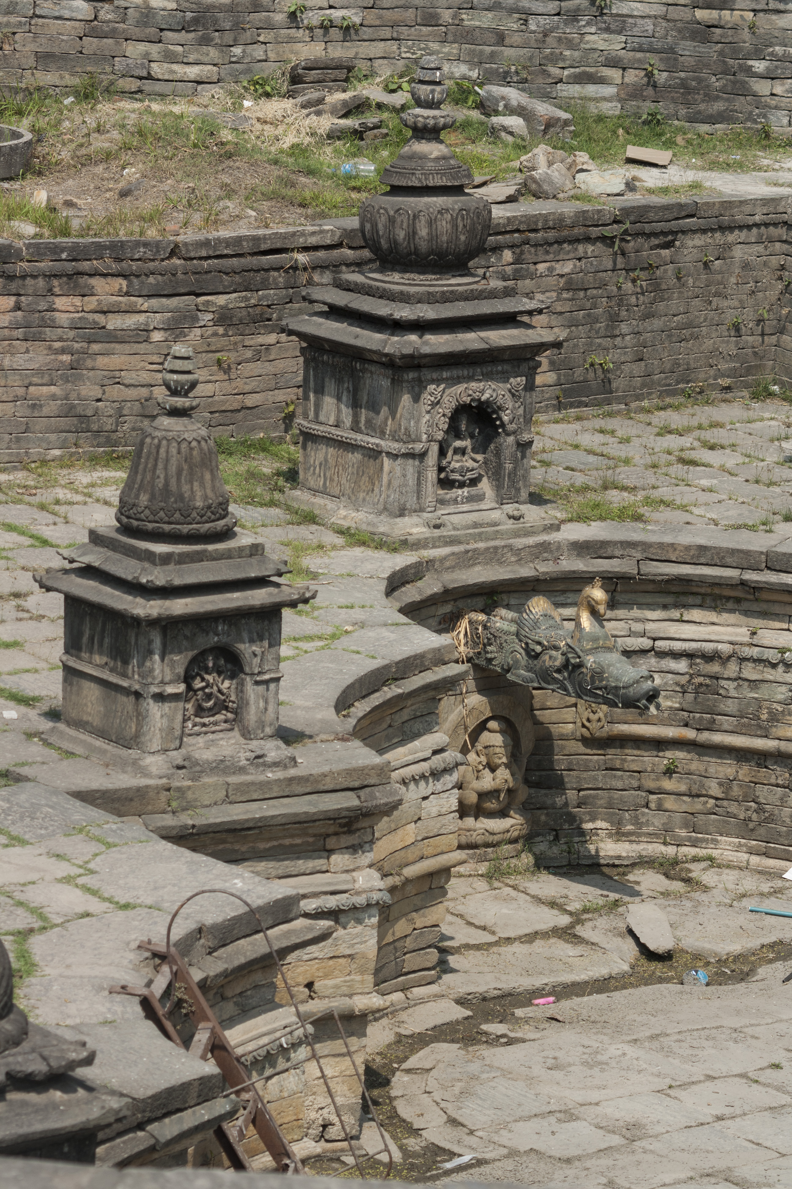 I took this photo near the Dharahara and it call Sundhara. one of the important and heritage site of Nepal. there is no water coming when it is renovated.